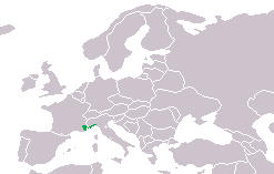 Distribution of Speleomantes ambrosii, based on Nöllert/Nöllert: "Die Amphibien Europas"